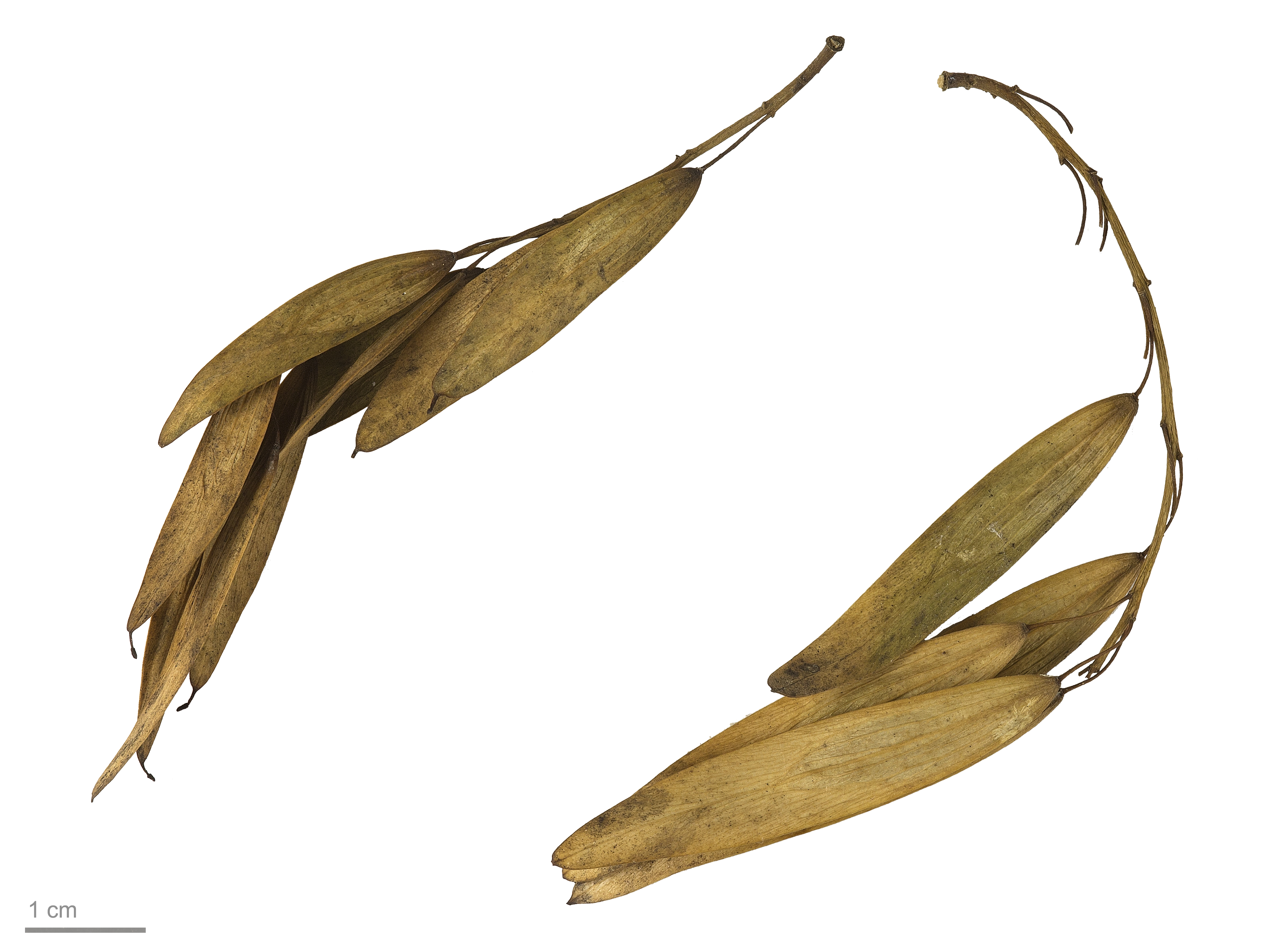 common ash , fruits and seeds